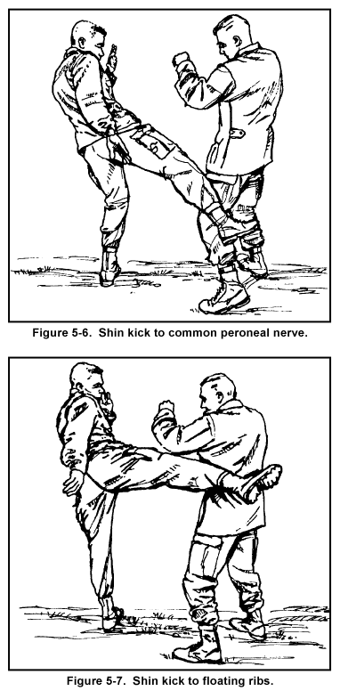 Figure 5-6. Shin kick to common peroneal nerve. Figure 5-7. Shin kick to floating ribs.